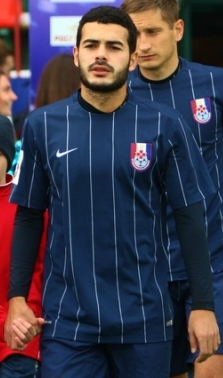 Emin Makhmudov